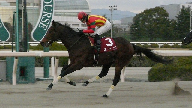 Suni_horse20111228